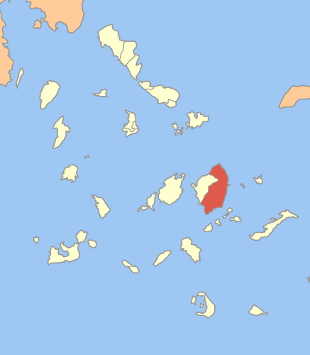 Locator map of Drymalia municipality (Δήμος Δρυμαλίας) in Cyclades prefecture (Νομός Κυκλάδων) in Greece.